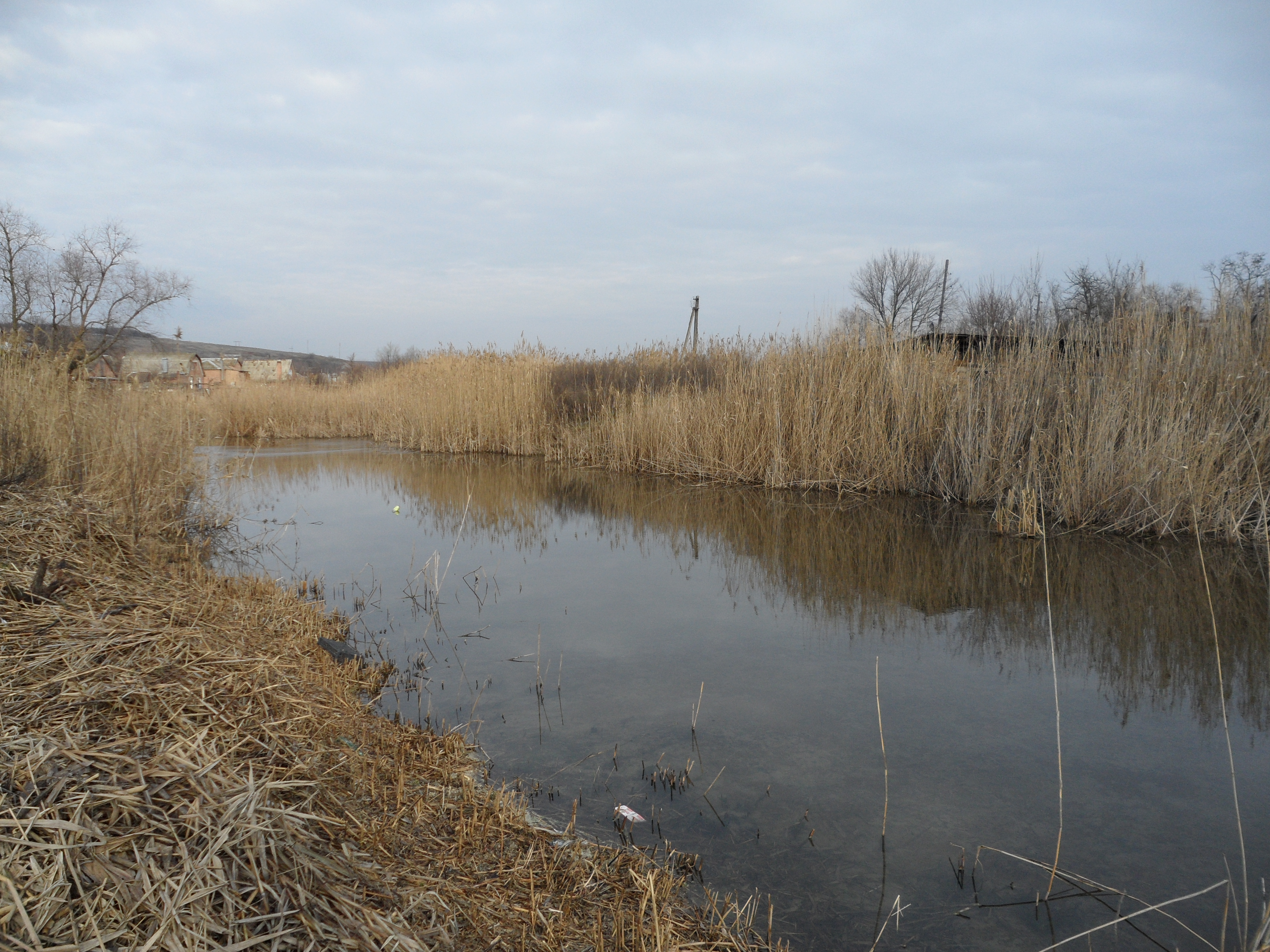 Bolshoy Log River in Bolshoy Log.